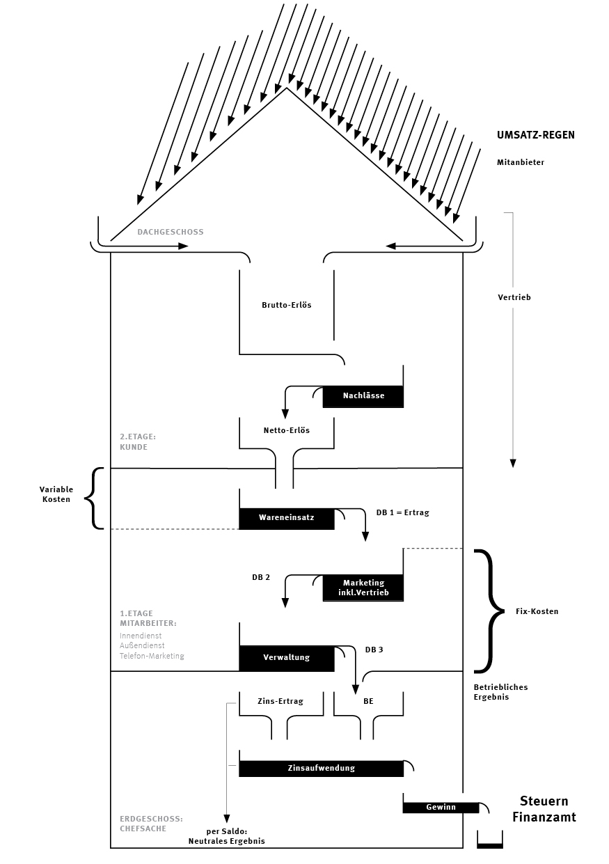 the cash flow for companies